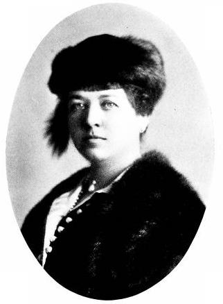 Portarit of Mrs. Elbert H. Gary, the wife of Elbert Henry Gary and a member of the New York State Commission for the Panama-Pacific International Exposition